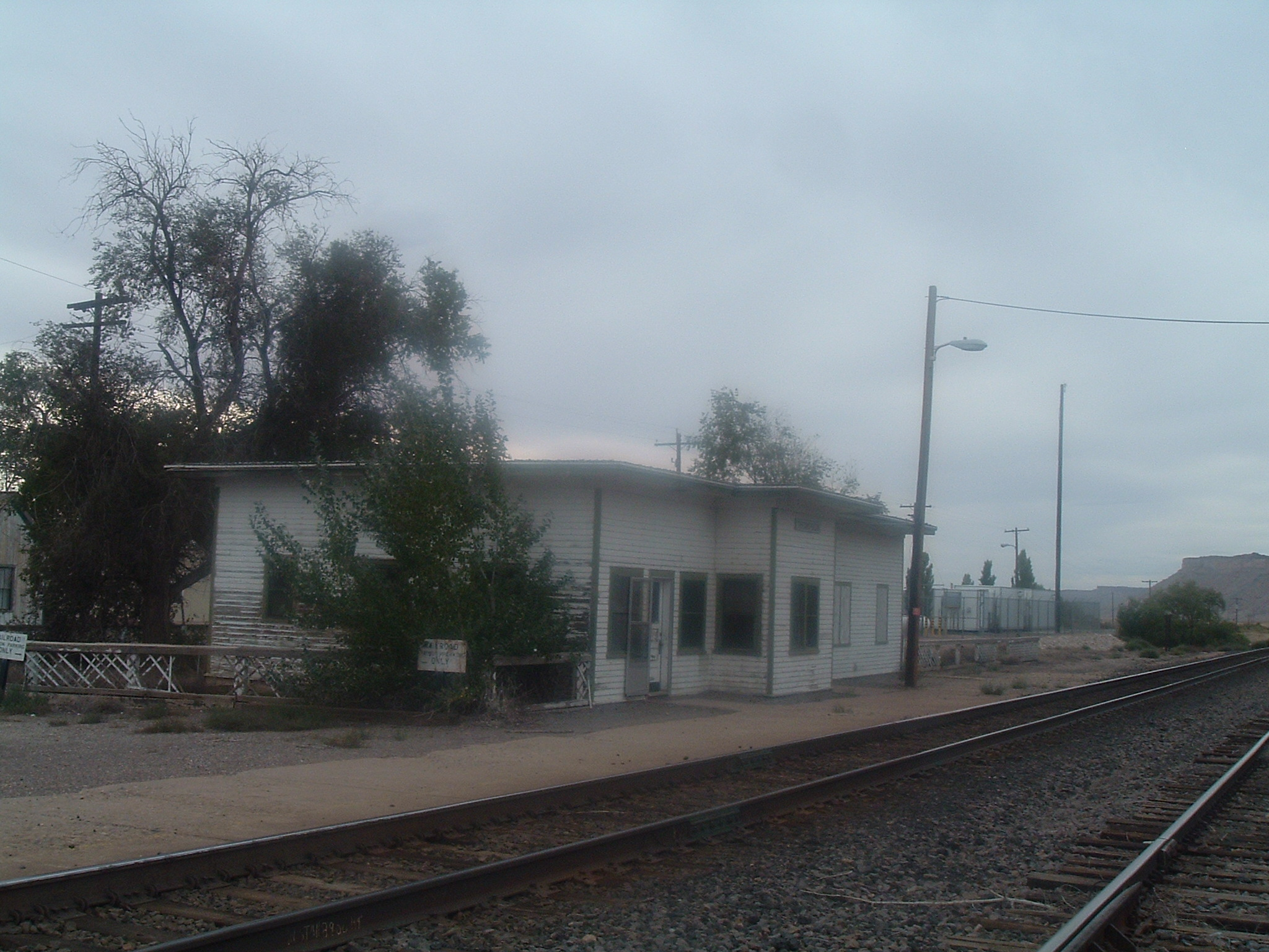 The Denver and Rio Grande Western Railroad depot in Thompson Springs, this building is also essentially the terminus of Utah State Route 94. Although not currently in use by any train, the California Zephyr and Rio Grande Zephyr once stopped here before the number of rural stops was reduced.